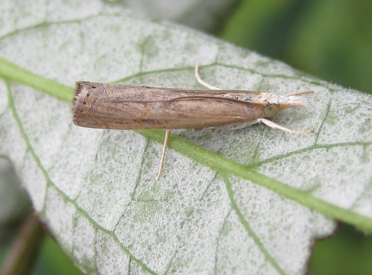 Parapediasia teterrellus (Bluegrass Webworm Moth - Hodges#5451). Alvethorpe Park, Montgomery County, Pennsylvania, USA. September 21, 2011.